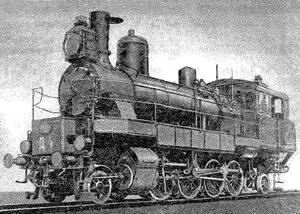 Russian passenger tank locomotive Yer-i (Ъи) series, Nevski works